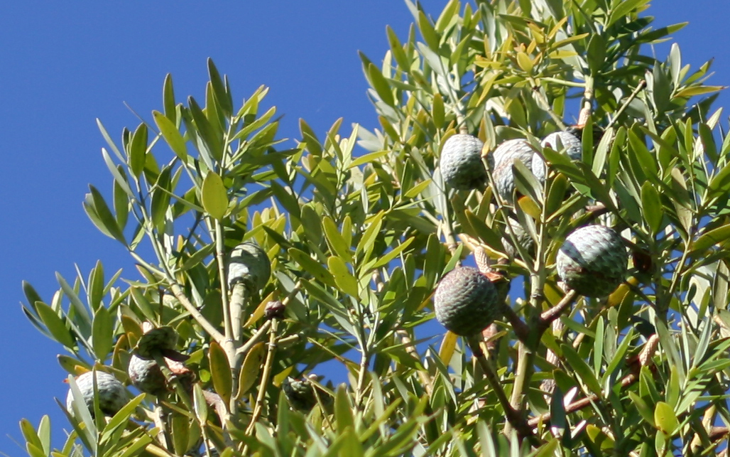 Agathis macrophylla, female cones on a young tree at Auckland, New Zealand